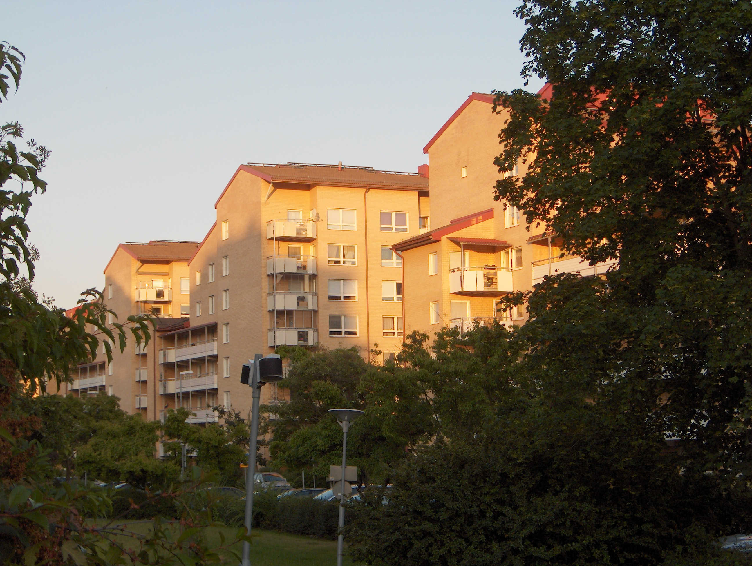 House in Åbergssons väg, Bergshamra, Solna, Sweden.